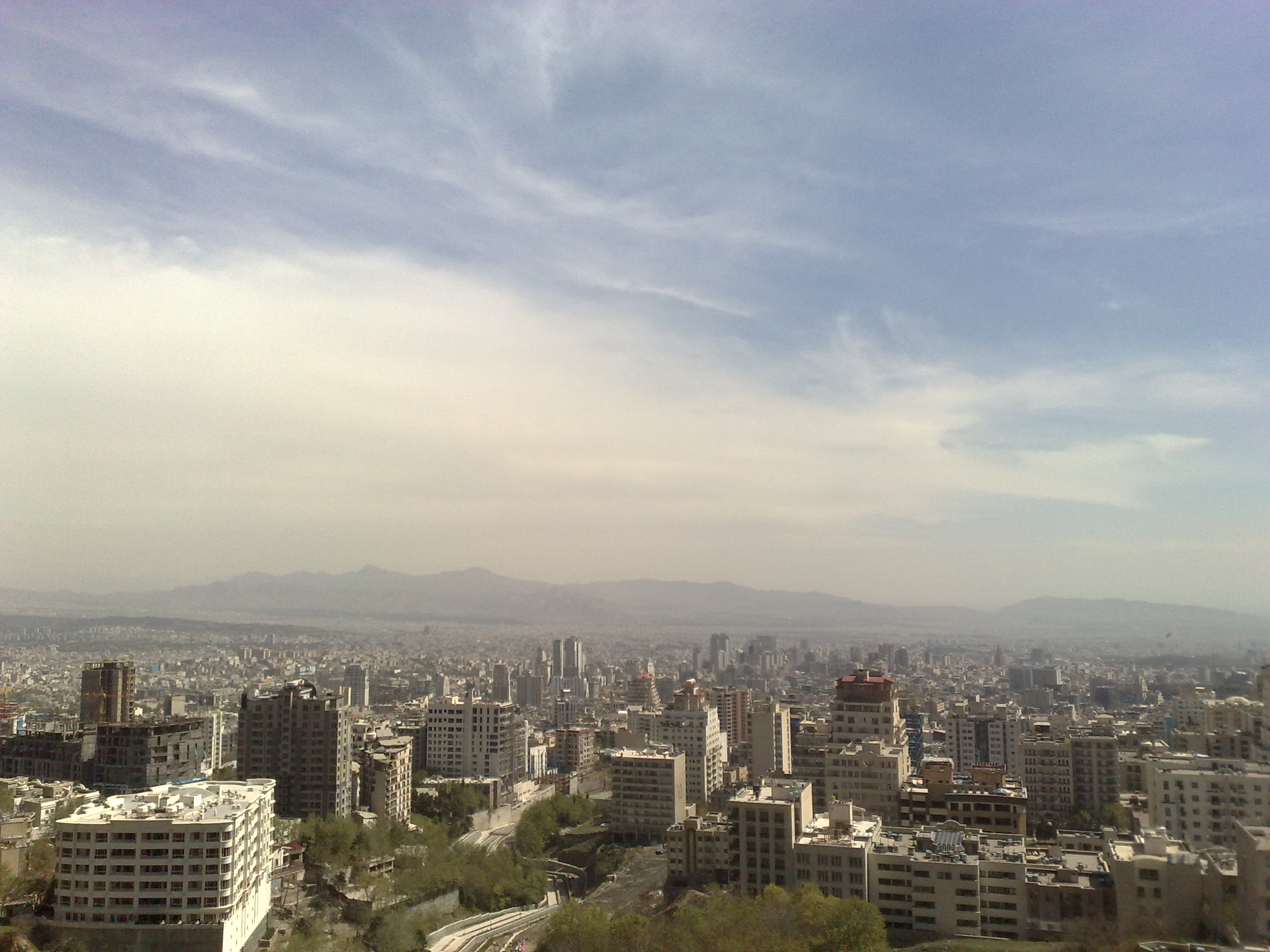 Tehran's view from Tochal